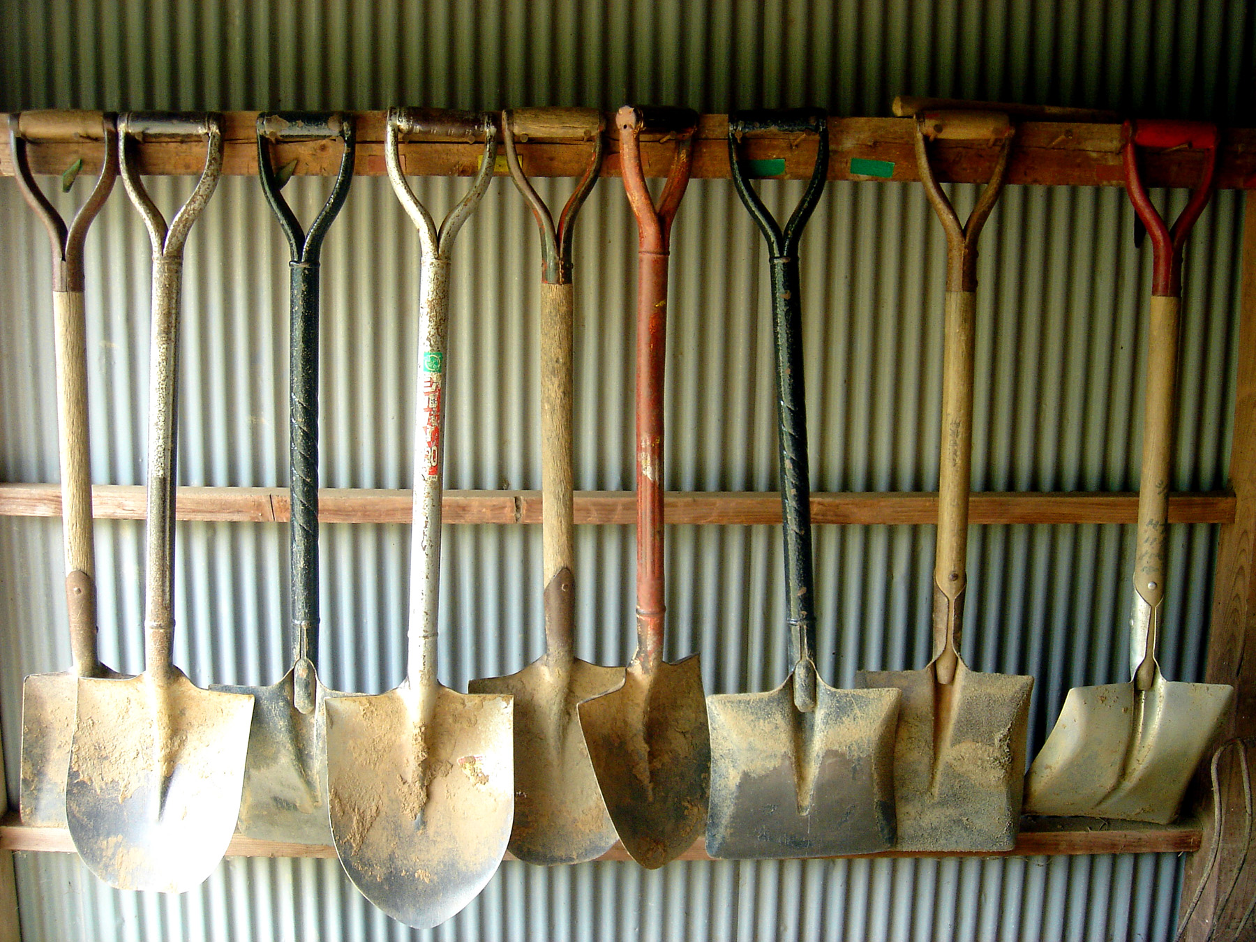 Shovels from Japan.